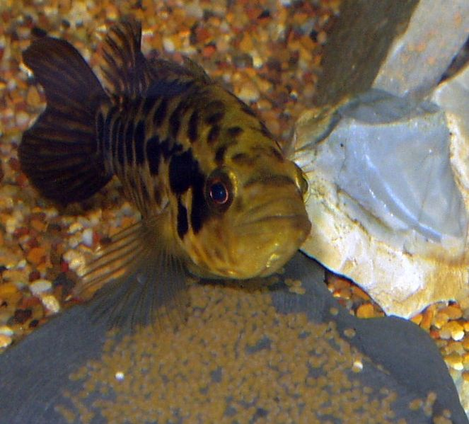 Parachromis managuensis